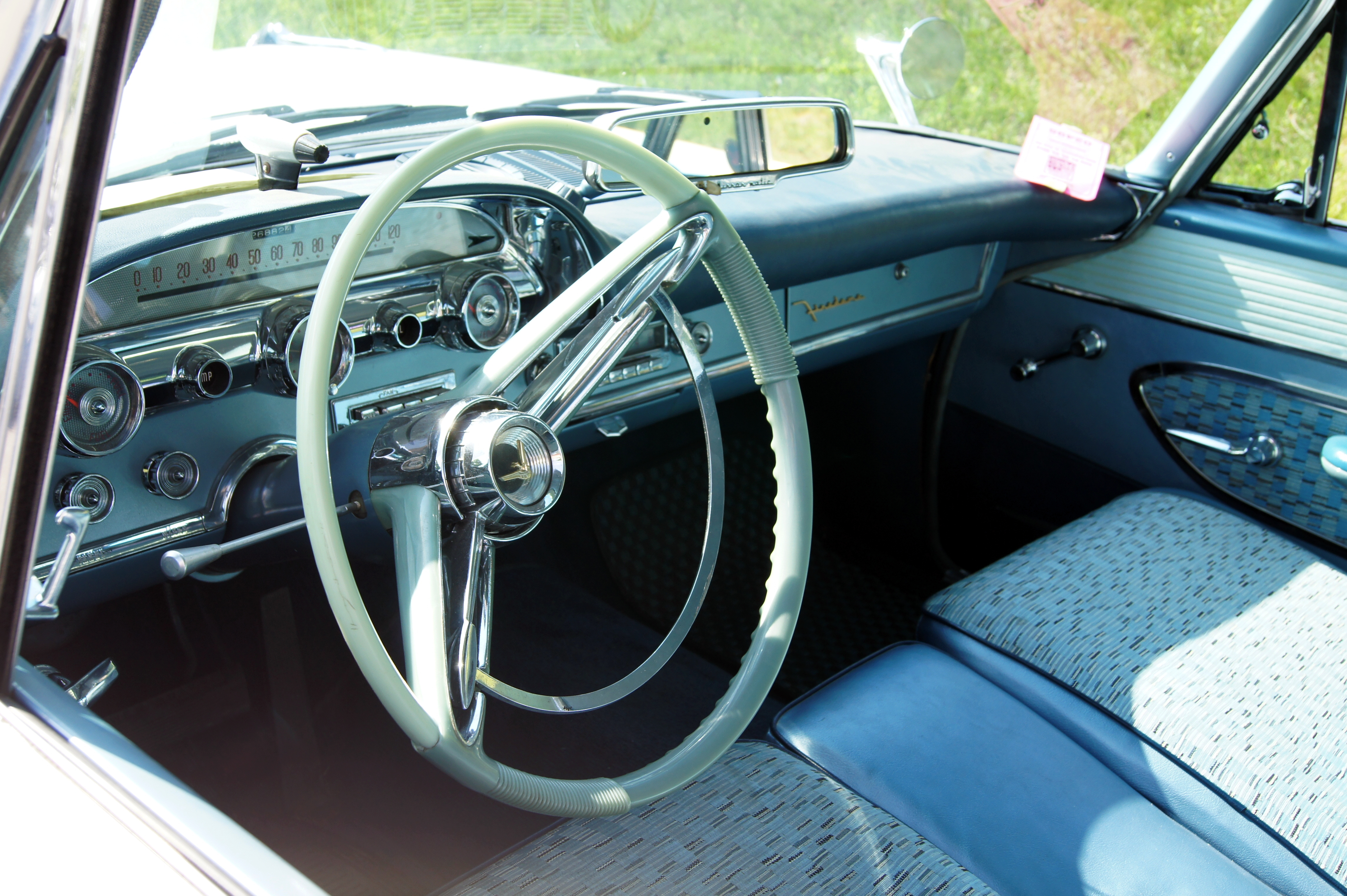 MSRA “BACK TO THE 50′s” 40th ANNIVERSARY June 21-23, 2013 State Fairgrounds St. Paul Minnesota More Car Pictures